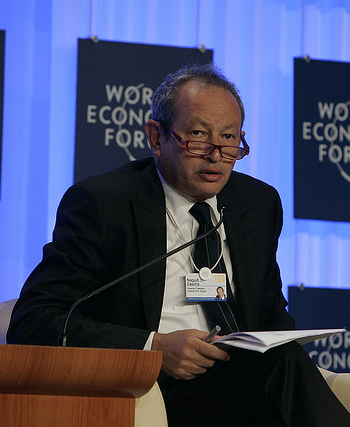 Naguib Sawiris - World Economic Forum on the Middle East